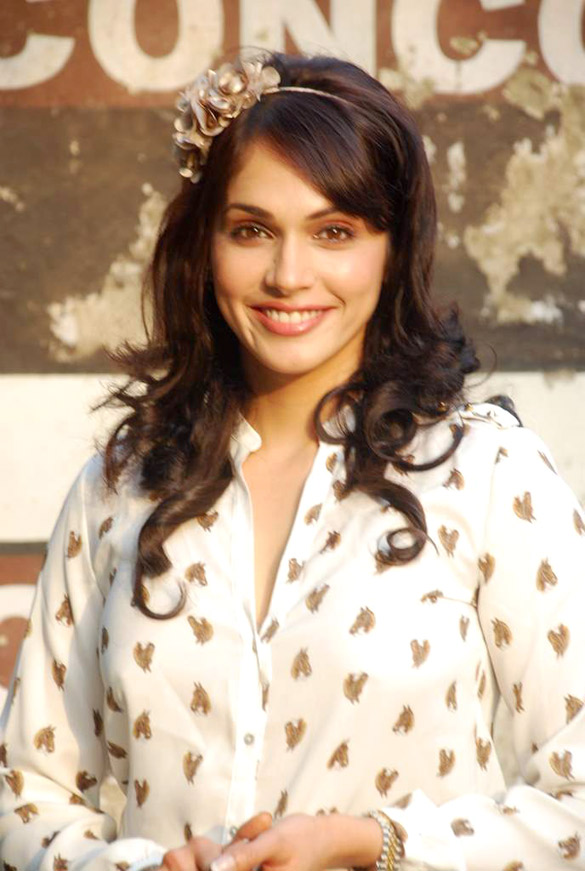 Isha koopikar